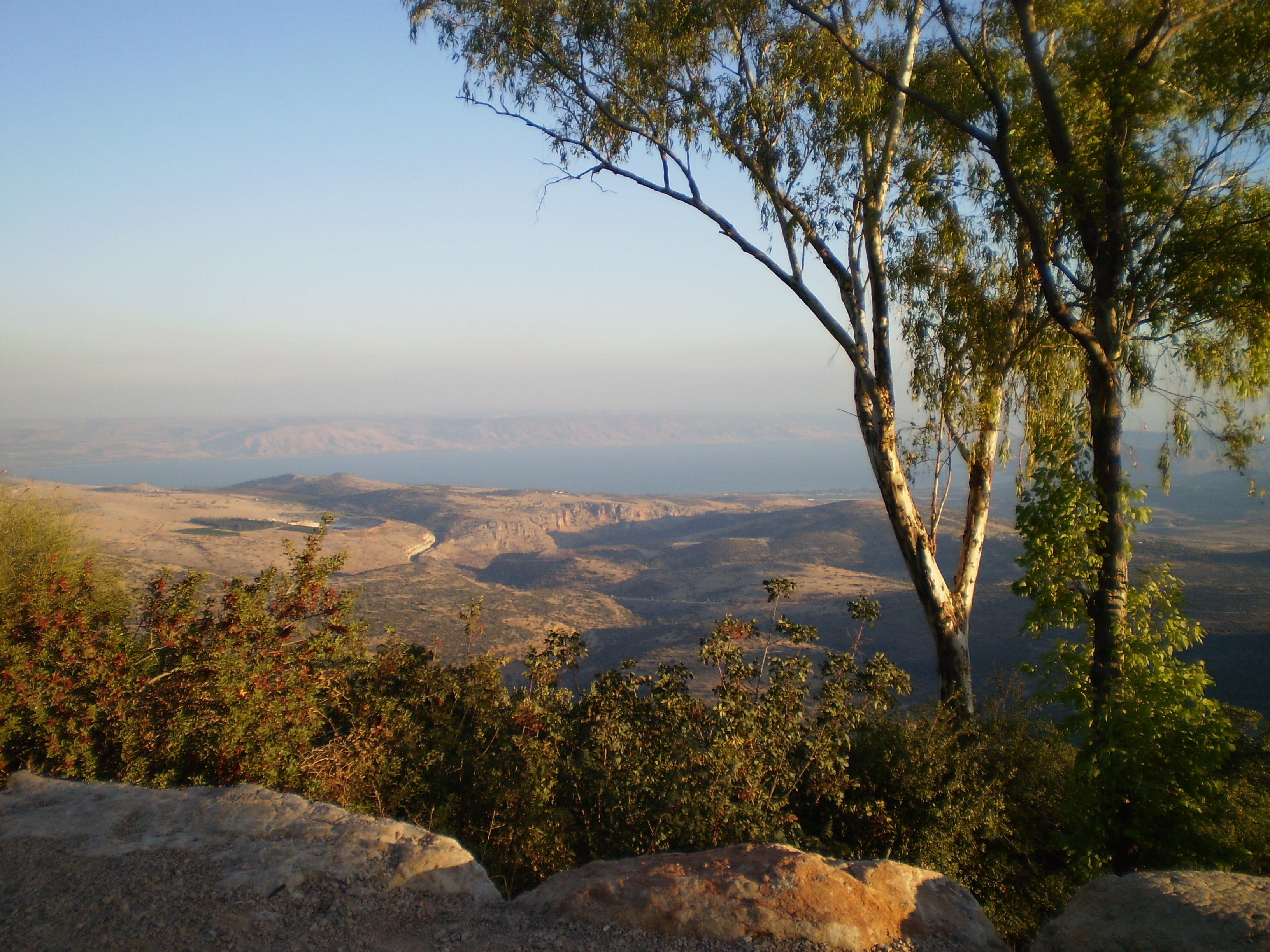 View of Kinneret from Amirim, Israel